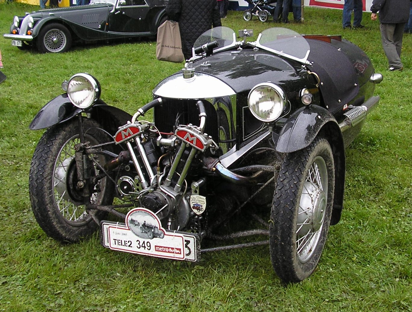 A vintage three wheel Morgan (Matchless engine). A Morgan 4/4 can be seen in the background. Photographed by myself at Prins Bertil Memorial in Stockholm, Sweden.